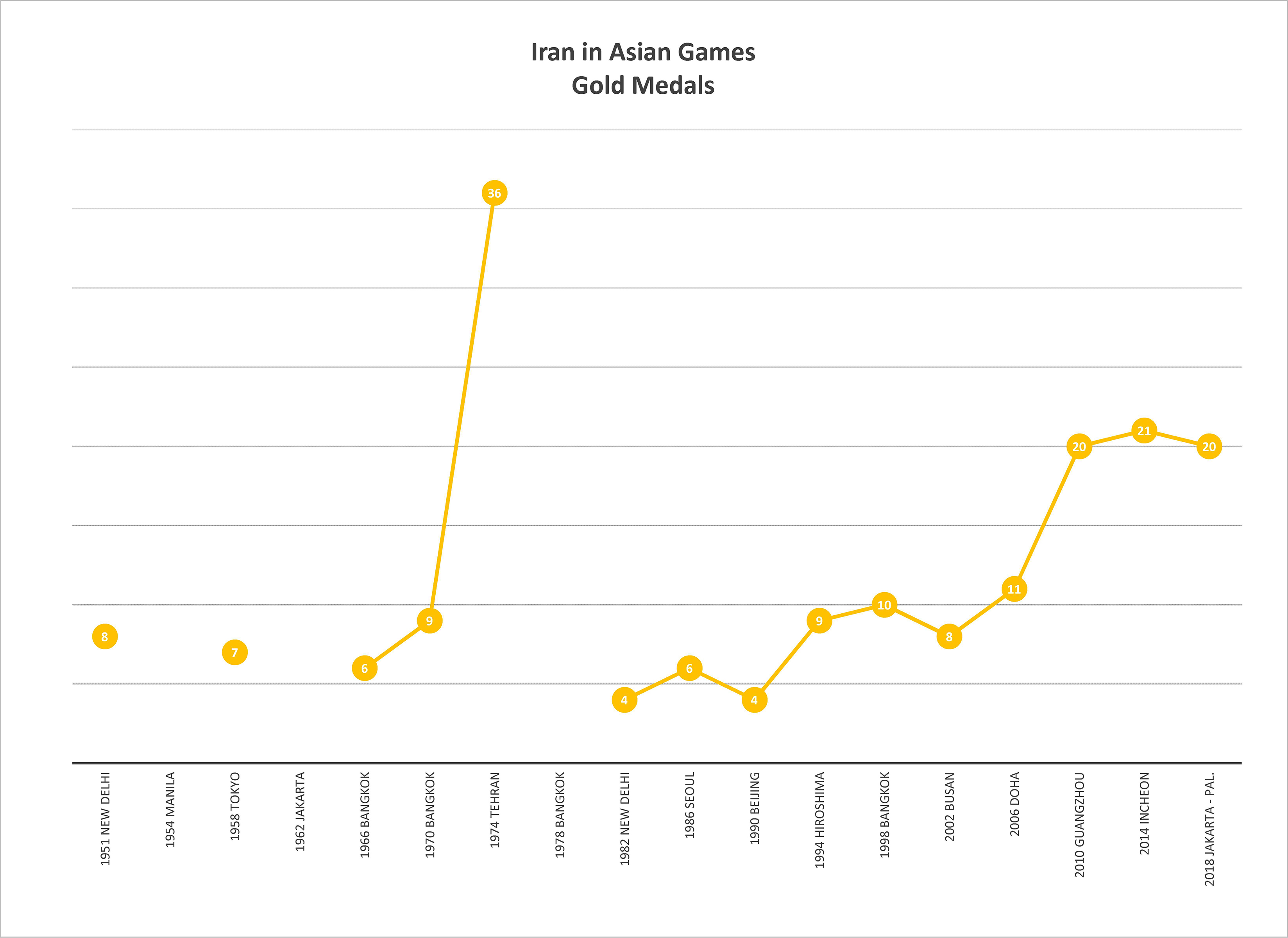 The chart is showing the gold medals counts in various Asian games